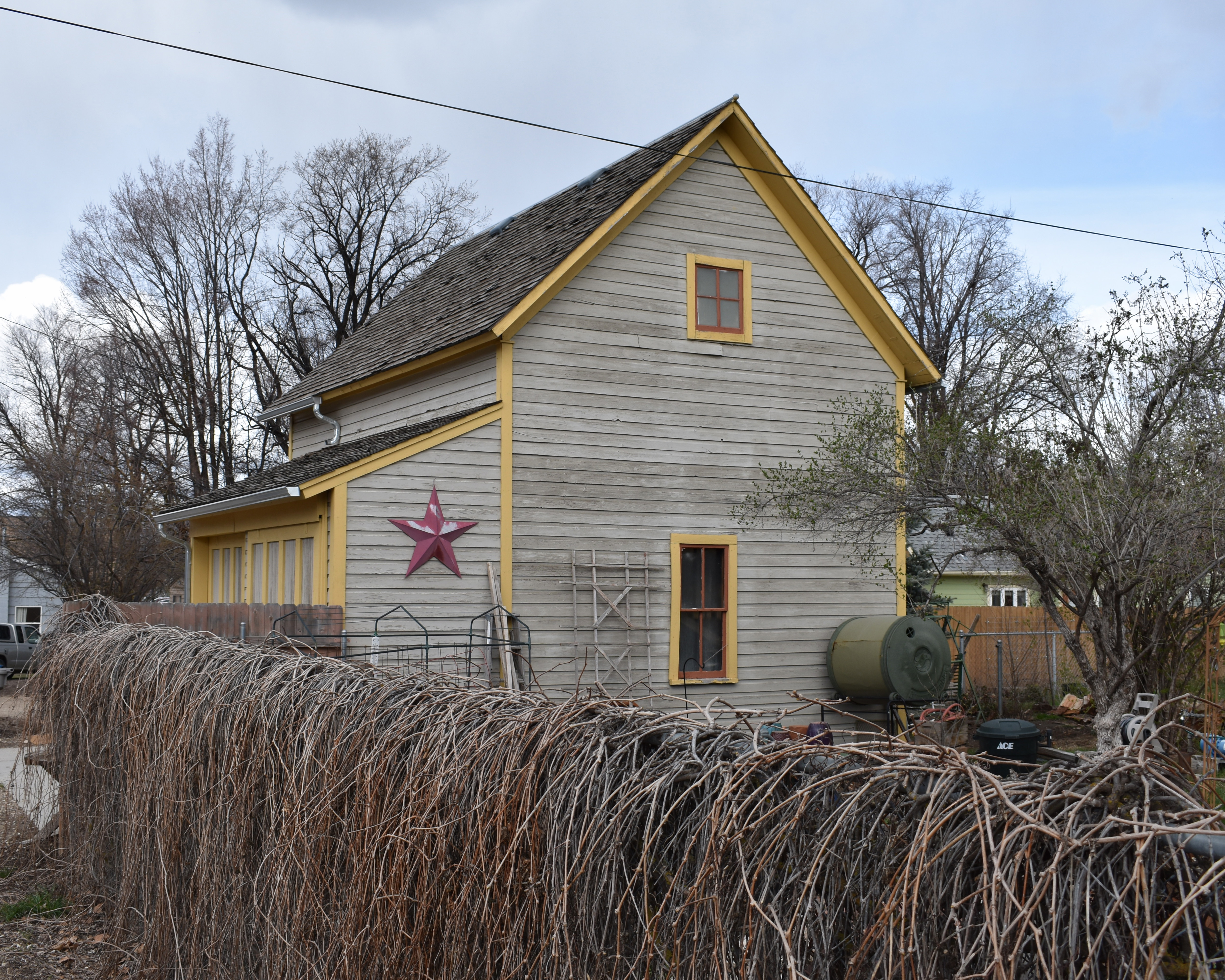 The Joseph Chitwood barn (1912) is located at the southwest corner of the Joseph Chitwood House (1892) in Boise, Idaho. The house is listed on the National Register of Historic Places.